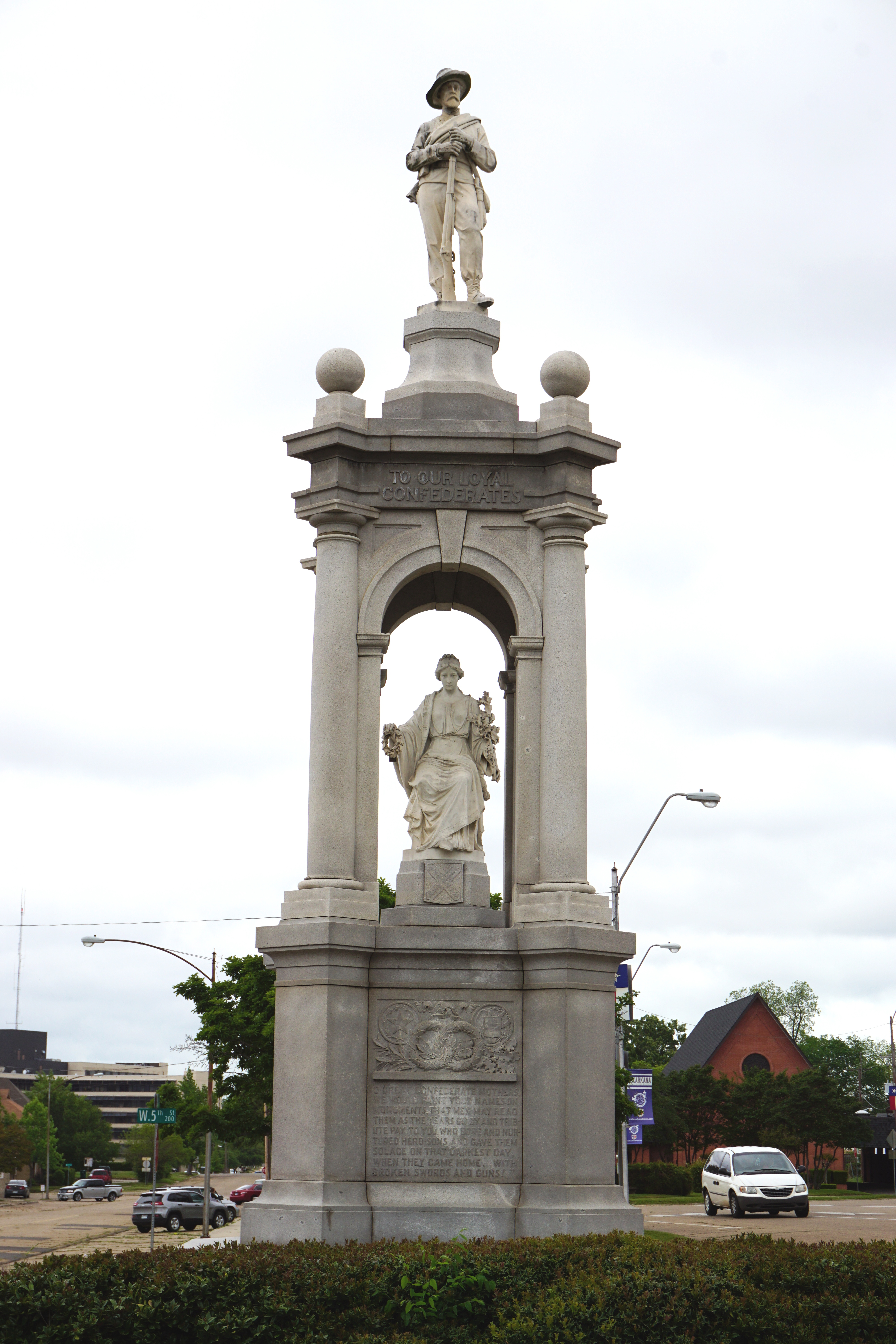 The Confederate monument in Texarkana, Texas (United States).